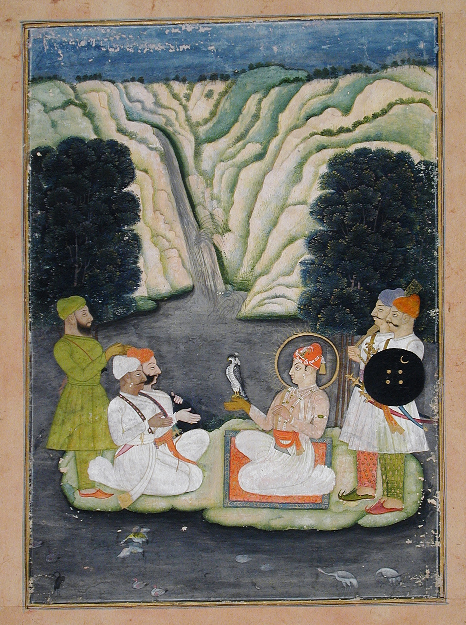 India, Rajasthan, Kishangarh, 1798 or earlier Drawings; watercolors Opaque watercolor and gold on paper Purchased with funds provided by Dr. and Mrs. J. Pollock (M.85.36) South and Southeast Asian Art